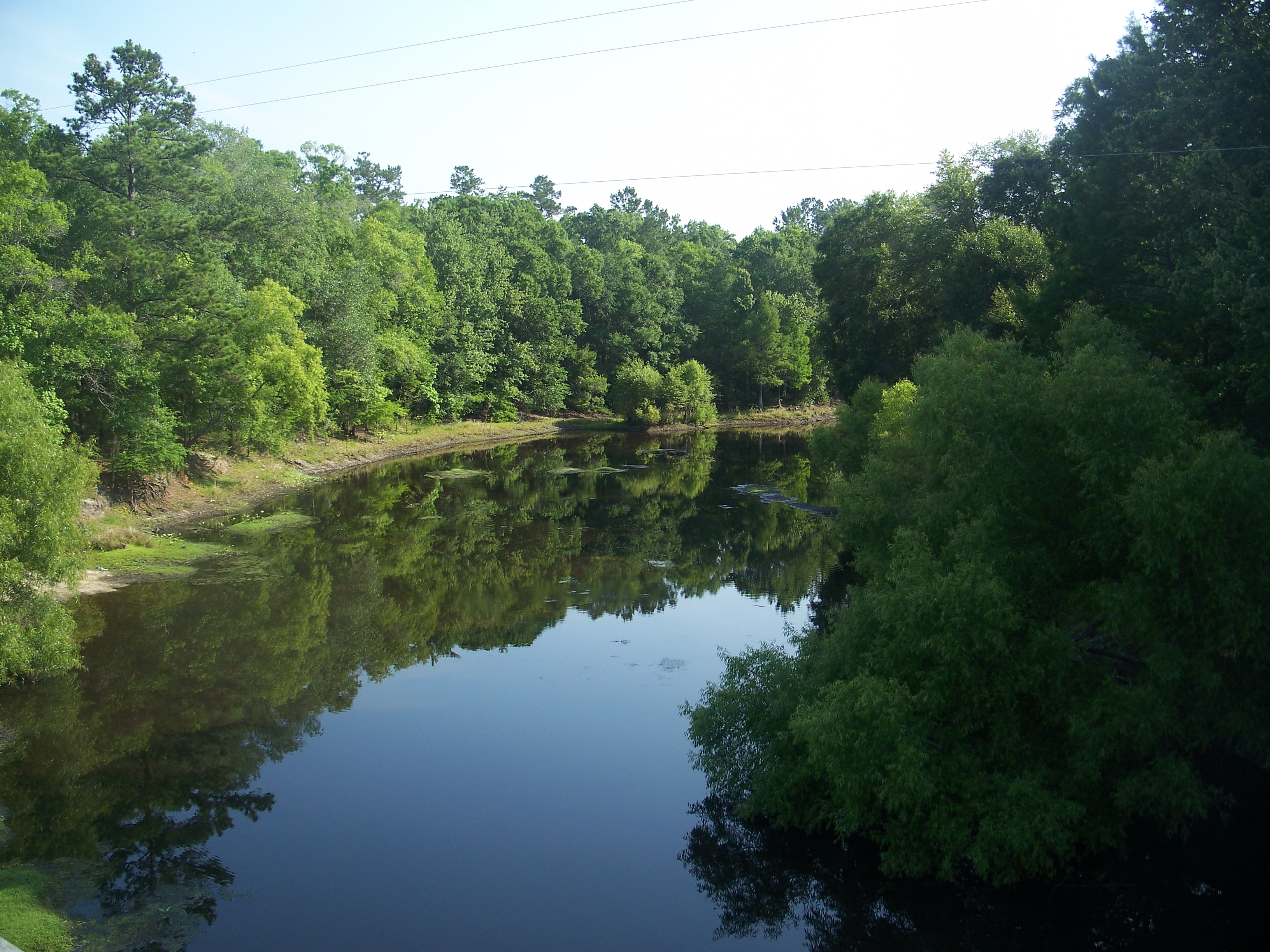 Lamont, Florida: Aucilla River, at the US 19/27 bridge. The river is the border between Jefferson and Madison counties.